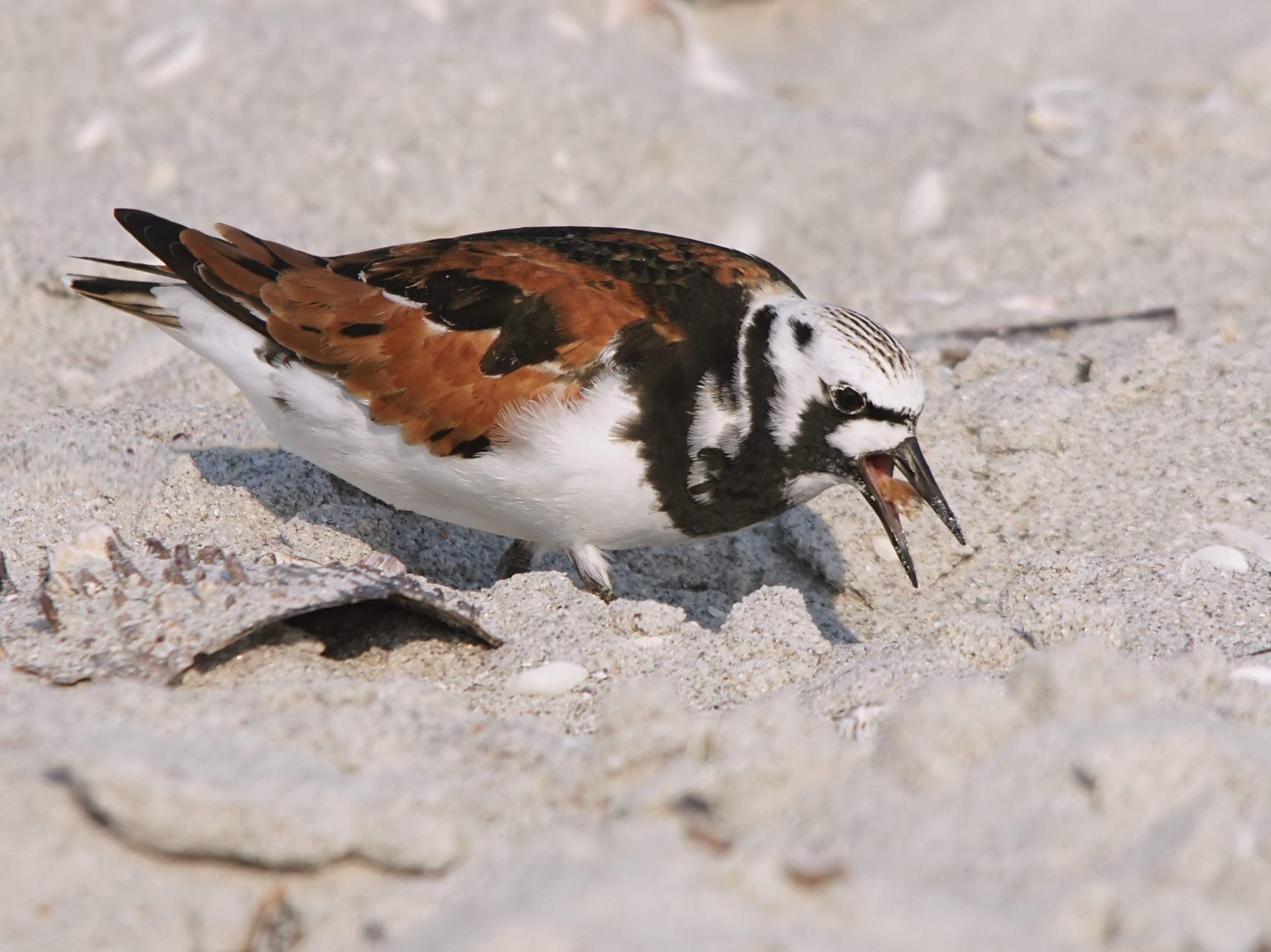 Ruddy turnstone at Sanibel Island in Florida, U.S.A.